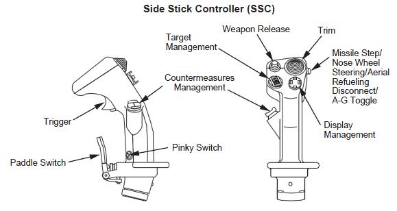 This diagram shows the layout and functionality of the F-16 control stick.